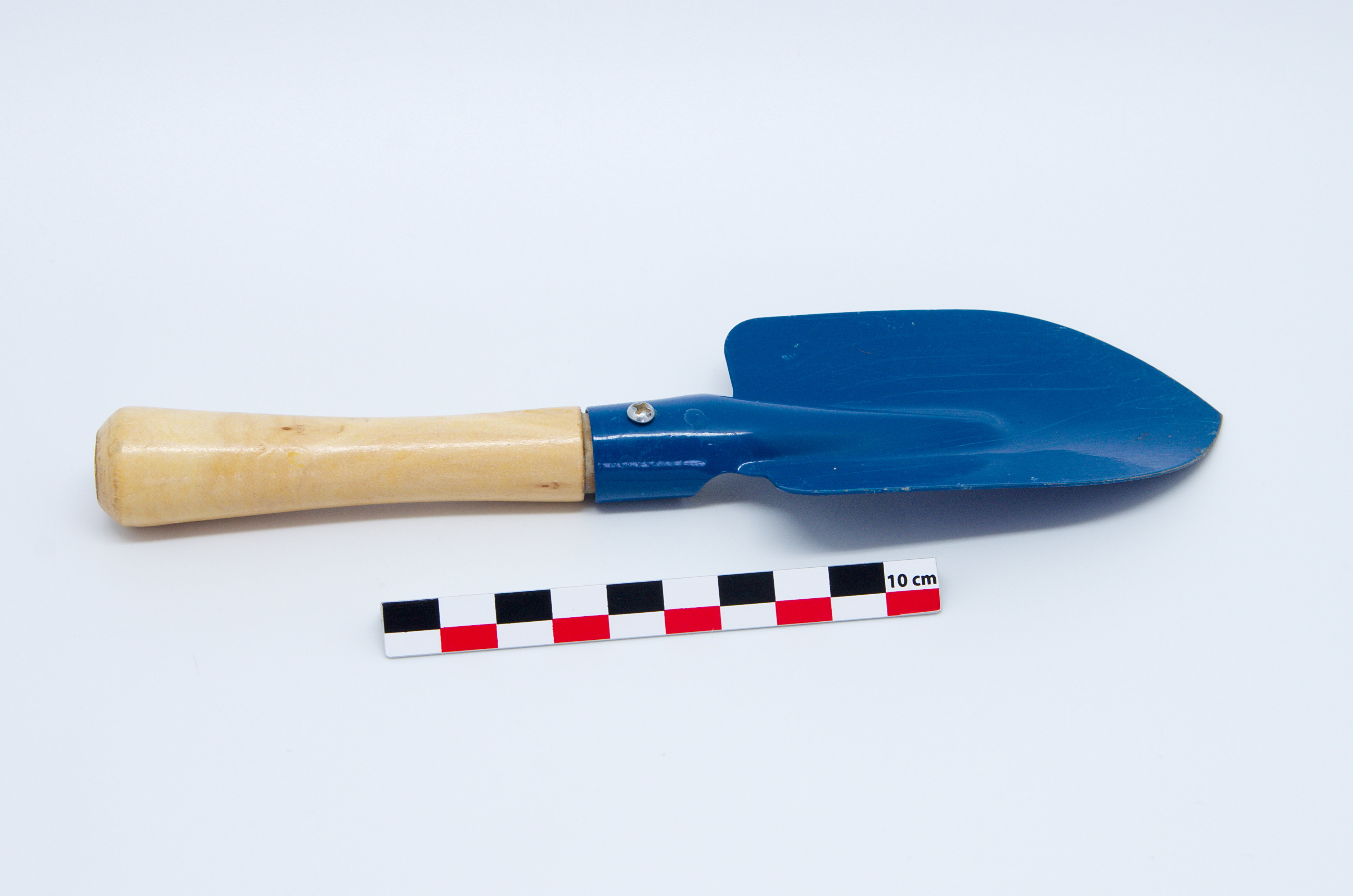 Transplatoir bleu